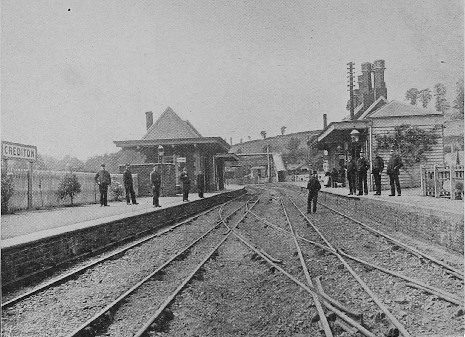 pre 1892 view of broad gauge track